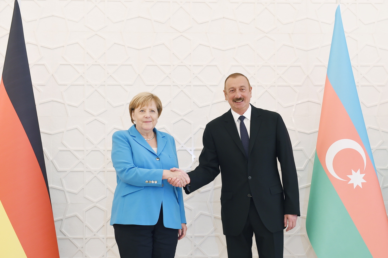 Official meeting ceremony of Federal Chancellor of Germany Angela Merkel was held